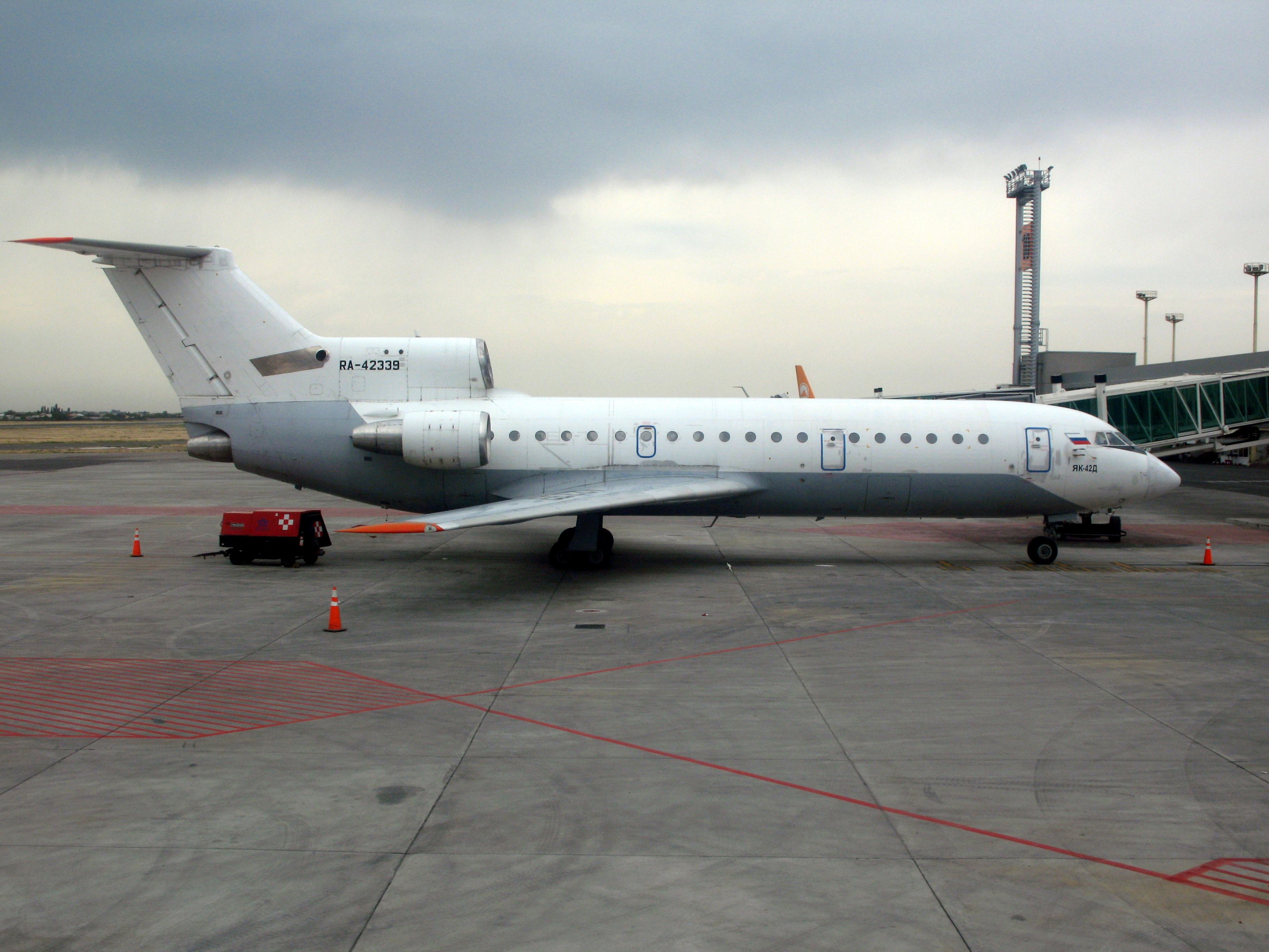 A picture of Alania Airways Yak-42D at Zvartnots Airport